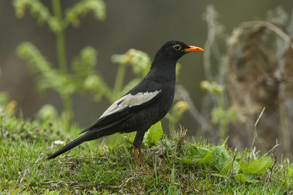 Grey-winged Blackbird Turdus boulboul - Bhutan_S4E0223